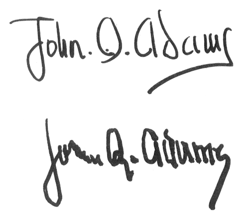 Signatures of John Quincy Adams (1874-1933, Austrian painter)